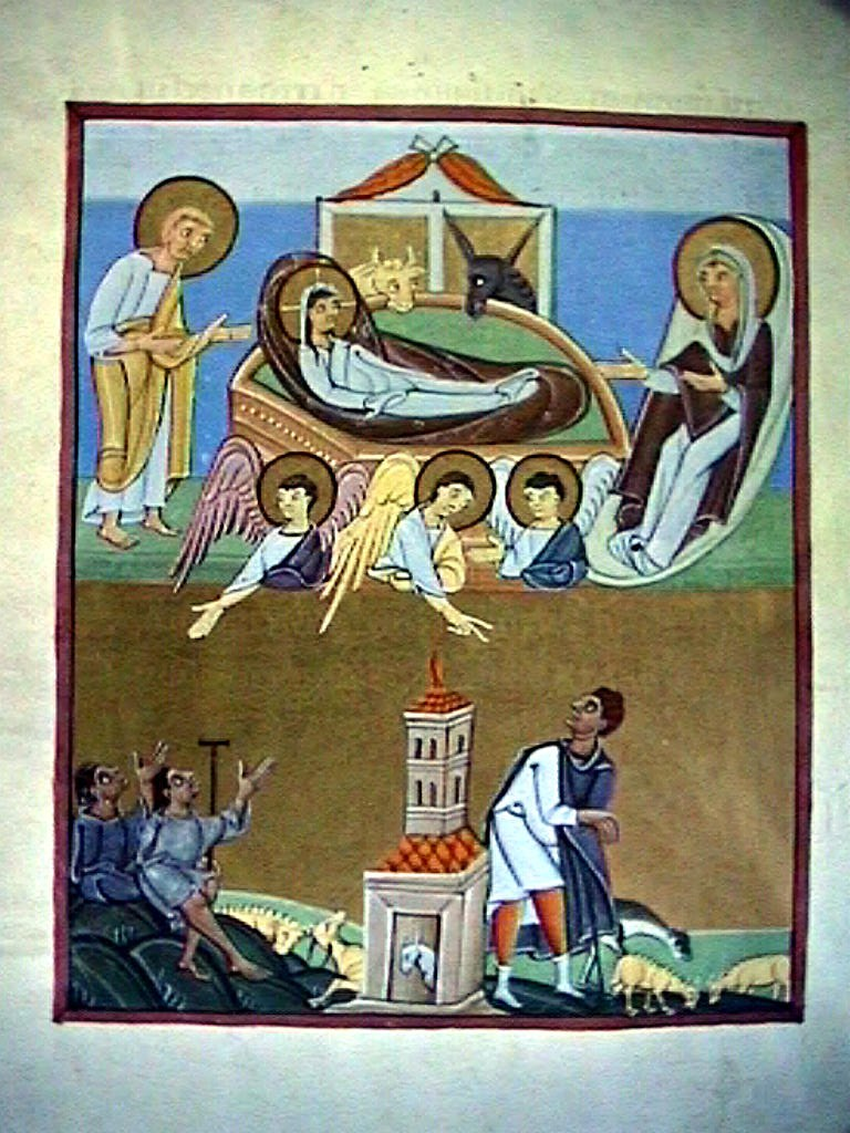 A page from the Bamberg Apocalypse Nativity and Annunciation to the Shepherds, Luc 2,6-14